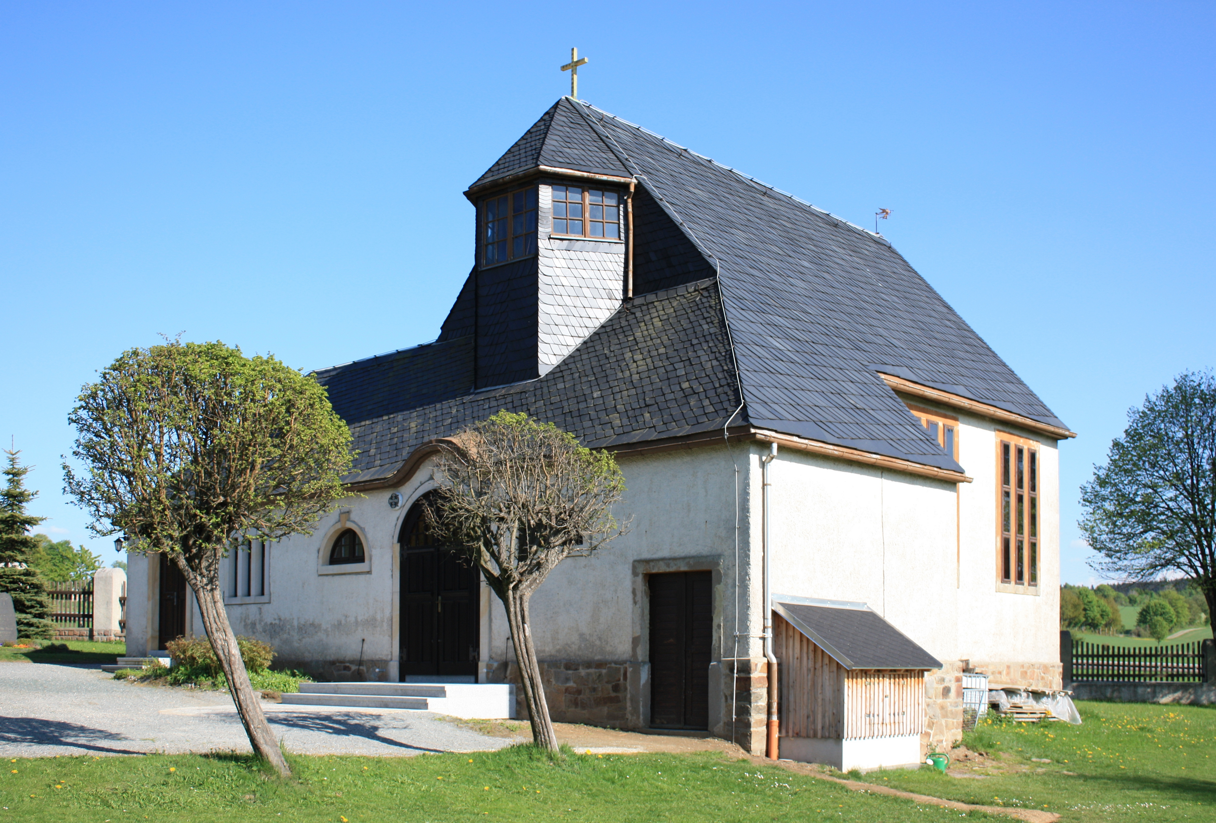 Hilmersdorf Cemetery Chapel